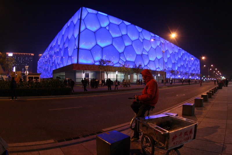 Water Cube : Olympic 2008 venue at night. By A. Aruninta